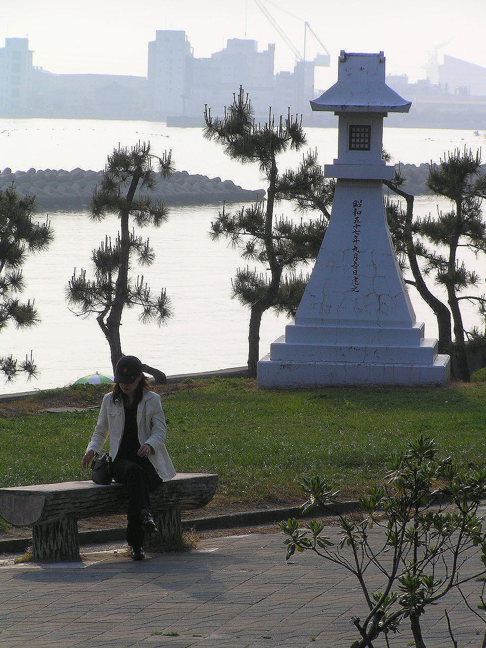 sea-side ishi-tourou sumiyoshijinja-akashi,hyougo5113859